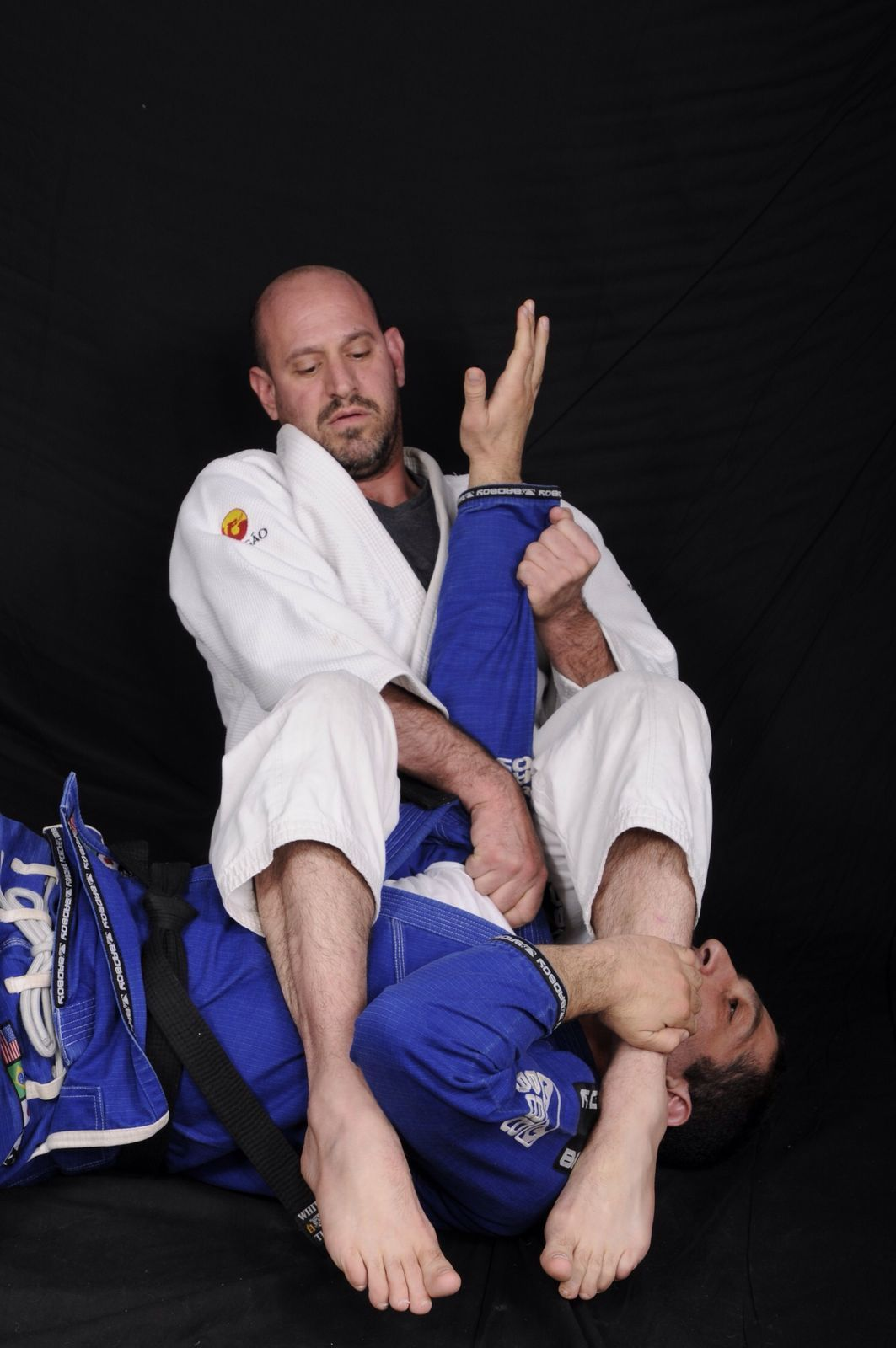 Ciro Zalcberg, 3rd degree black belt professor in brazilian Jiujitsu (BJJ) illustrates the transition to juji gatame